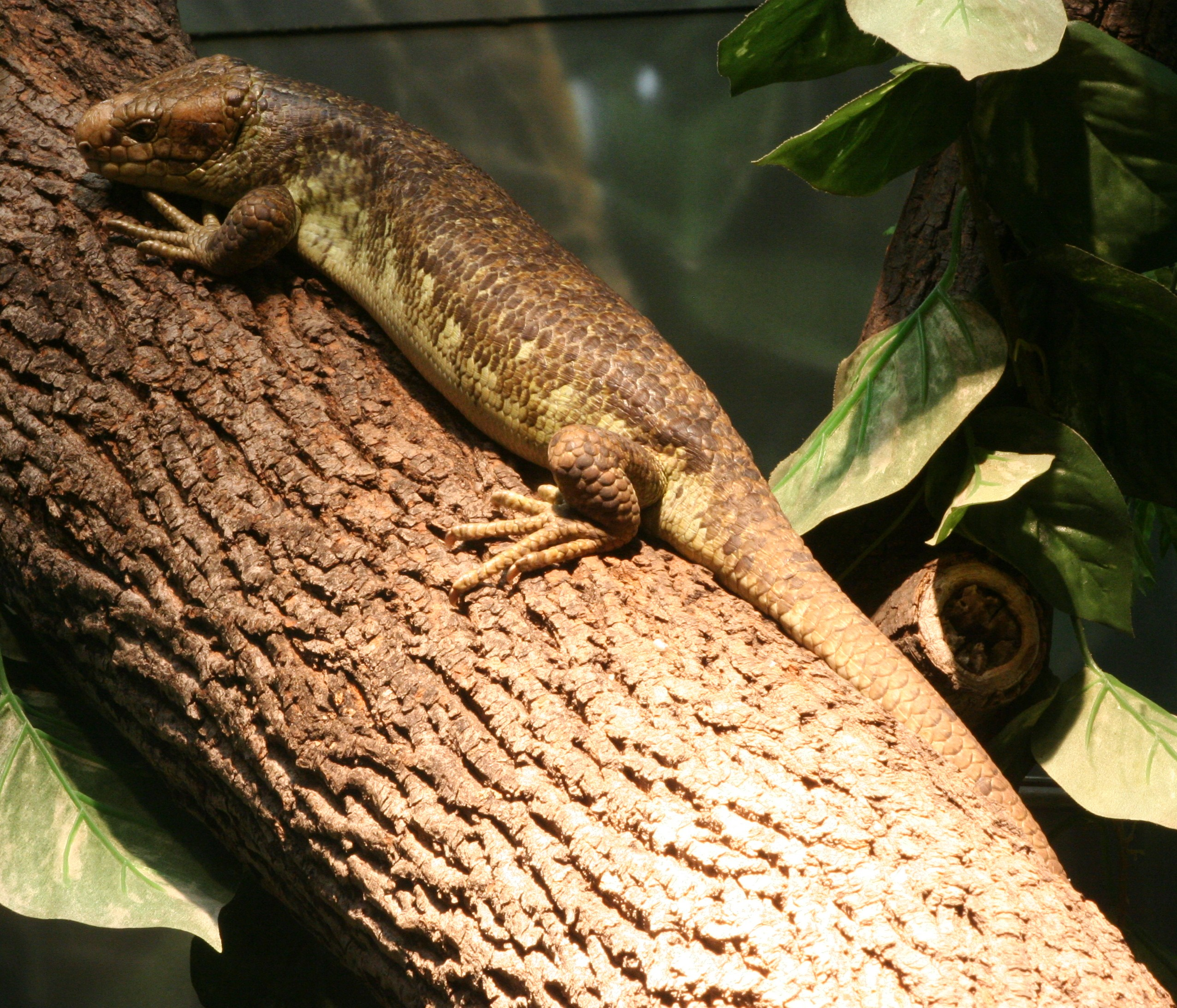 Prehensile-tailed skink (Corucia zebrata) at the Buffalo Zoo